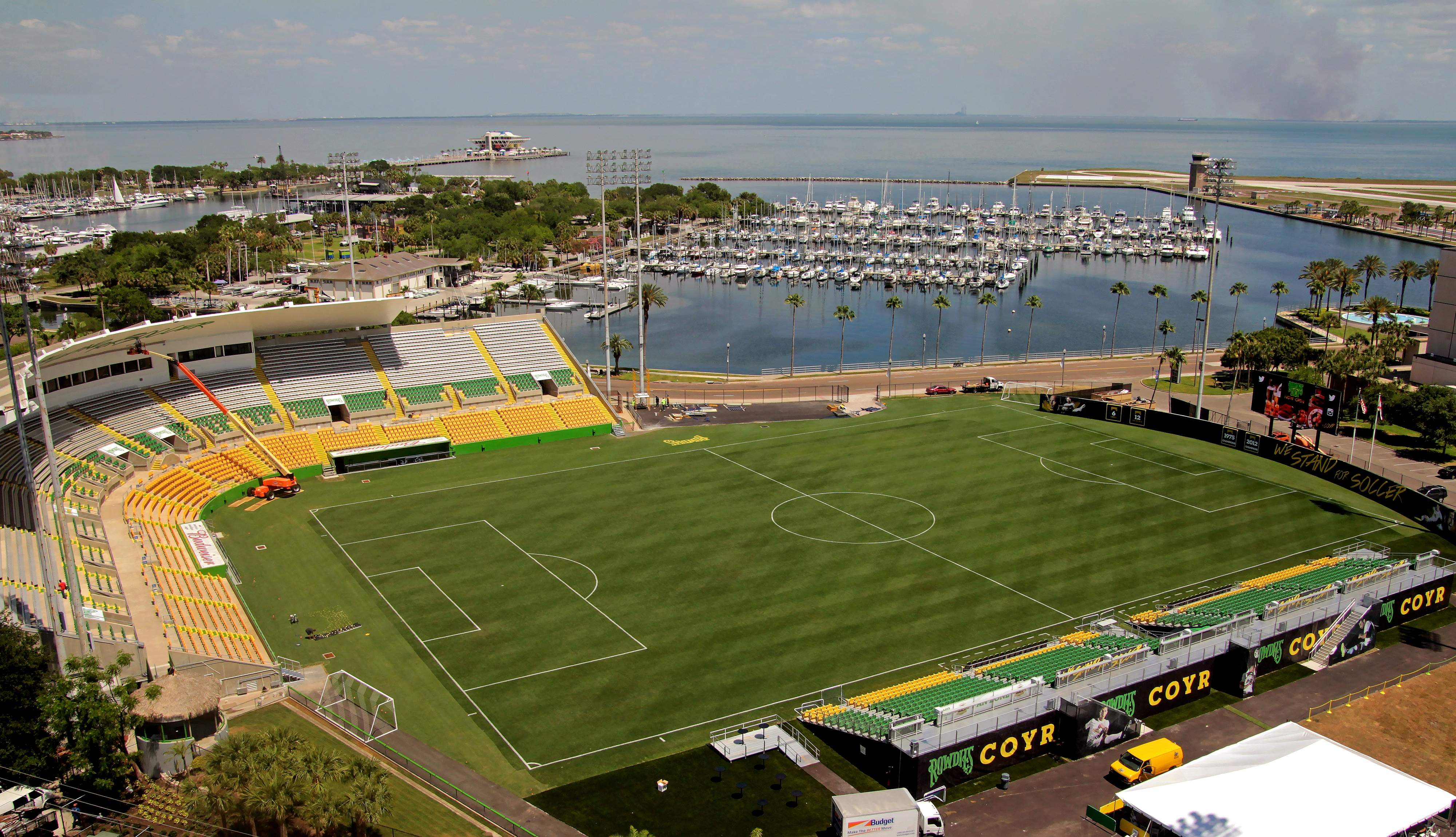 Al Lang Field in Soccer Configuration for 2015 season.